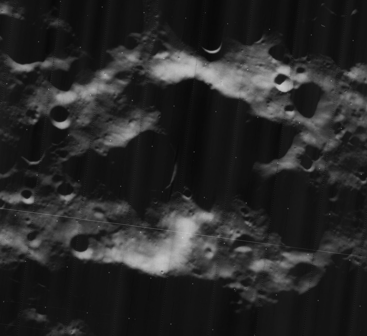 Malapert, near the south pole of the moon, with north at the top. The bright peak near bottom center is often called Malapert Mountain.